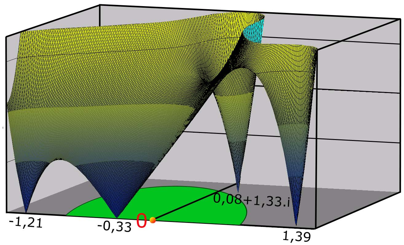 Exemple of fifth-degree equations whose solution cannot be so expressed by radical. The map show the module of Z5 - 3.Z - 1